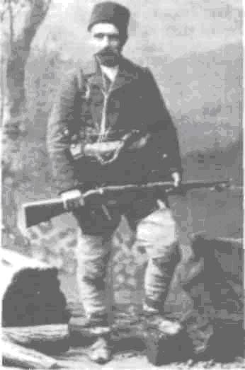 Portrait of IMARO Voivoda Iliya Kurchovaliyata